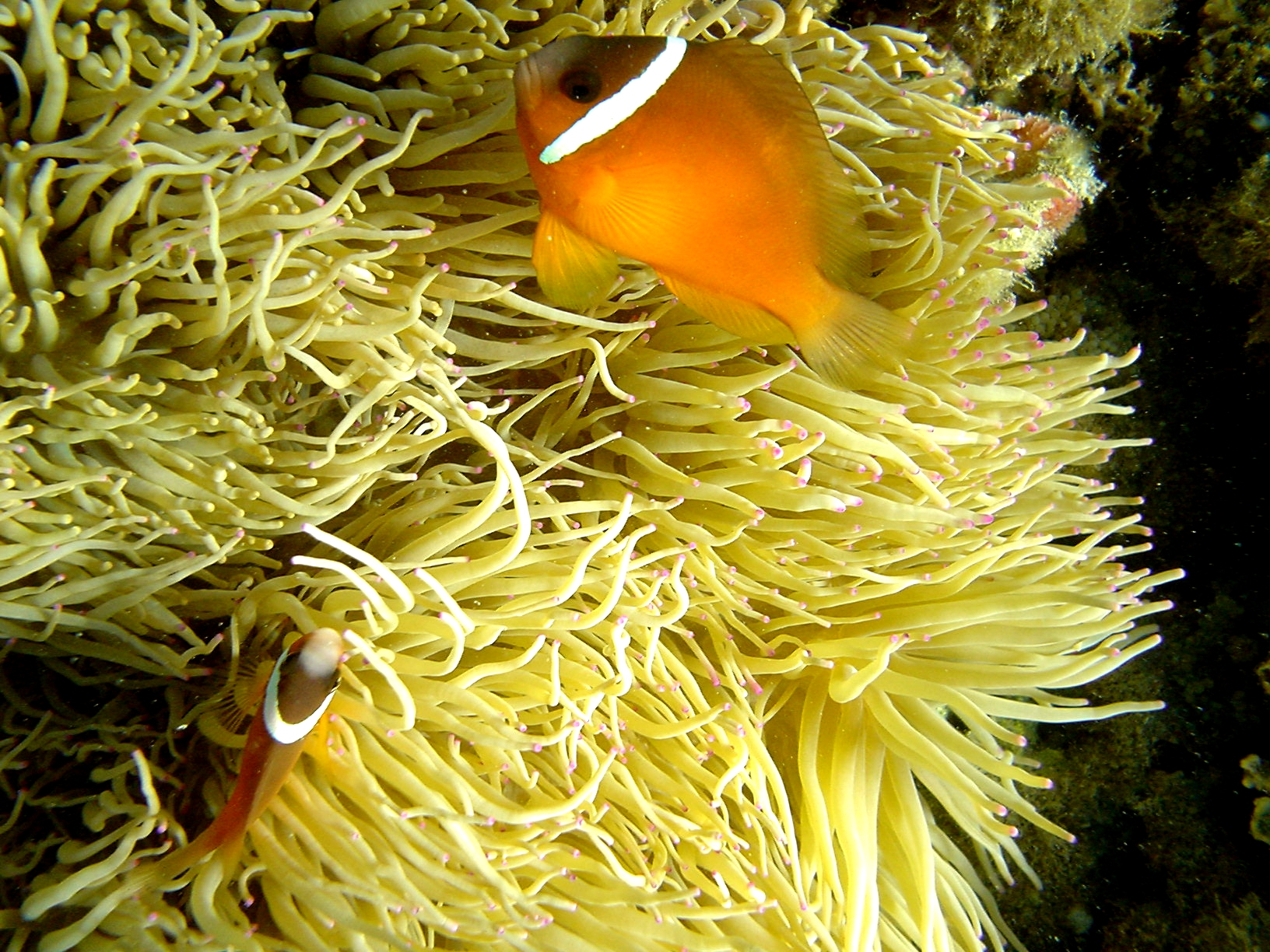 Amphiprion barberi and their Sea Anemone Heteractis crispa ?. Photograped at Fiji